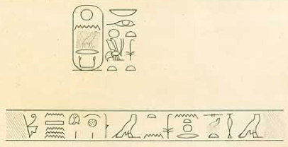 Drawing of the stele of Nerikare discovered by Lepsius, together with a single scarab, this is the unique contemporary attestation of pharaoh Nerikare of the 13th dynasty. The stele is now lost.